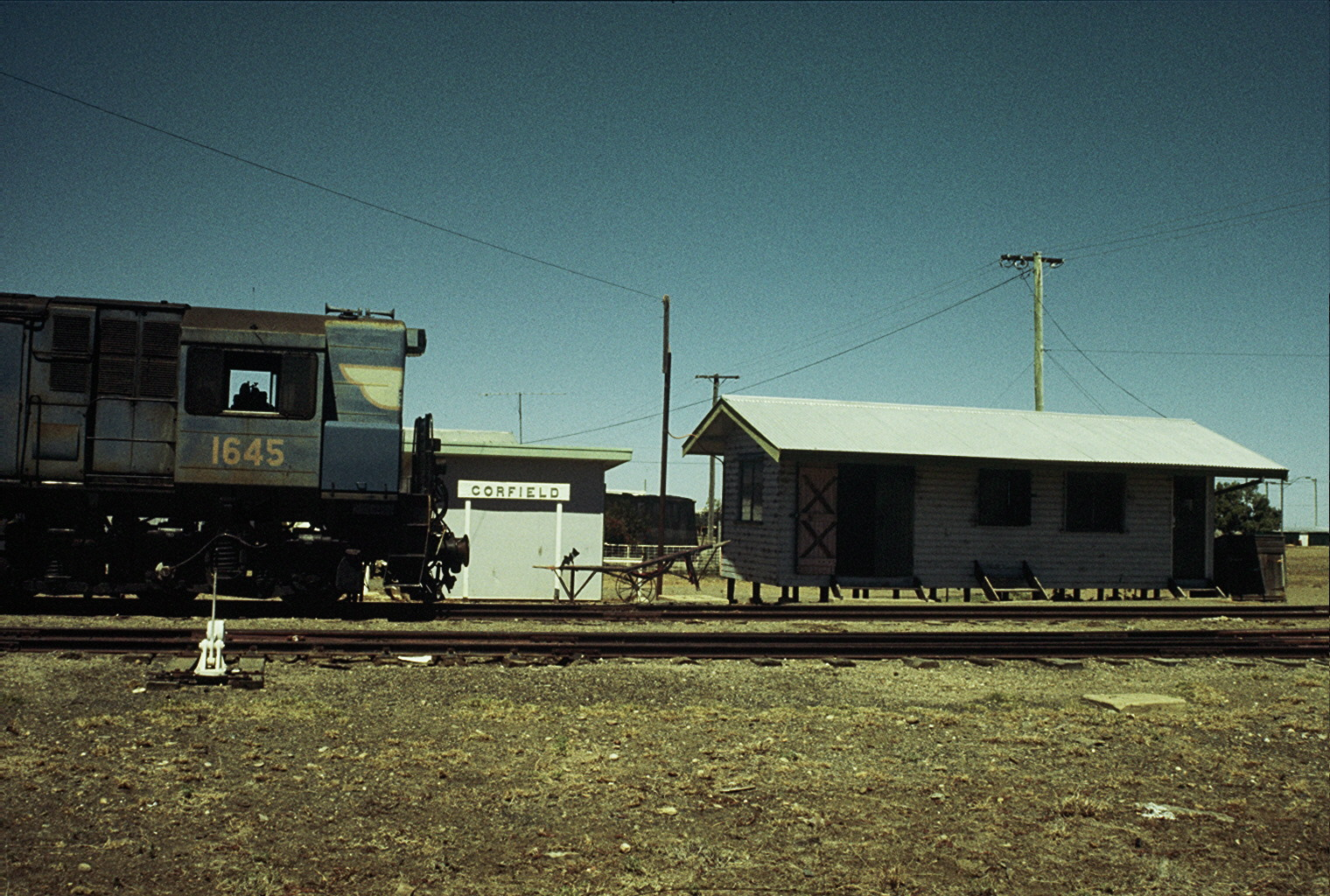 QR loco 1645 at Corfield Station on the Hughenden-Winton line, September 1989